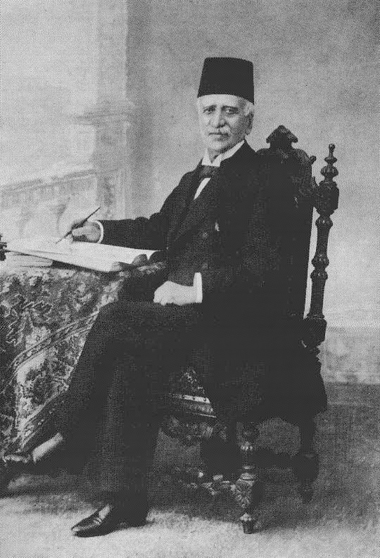 Mirza Melkum Khan (1834–1908), Persian diplomat